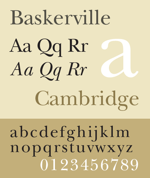 Specimen of the typeface Baskerville